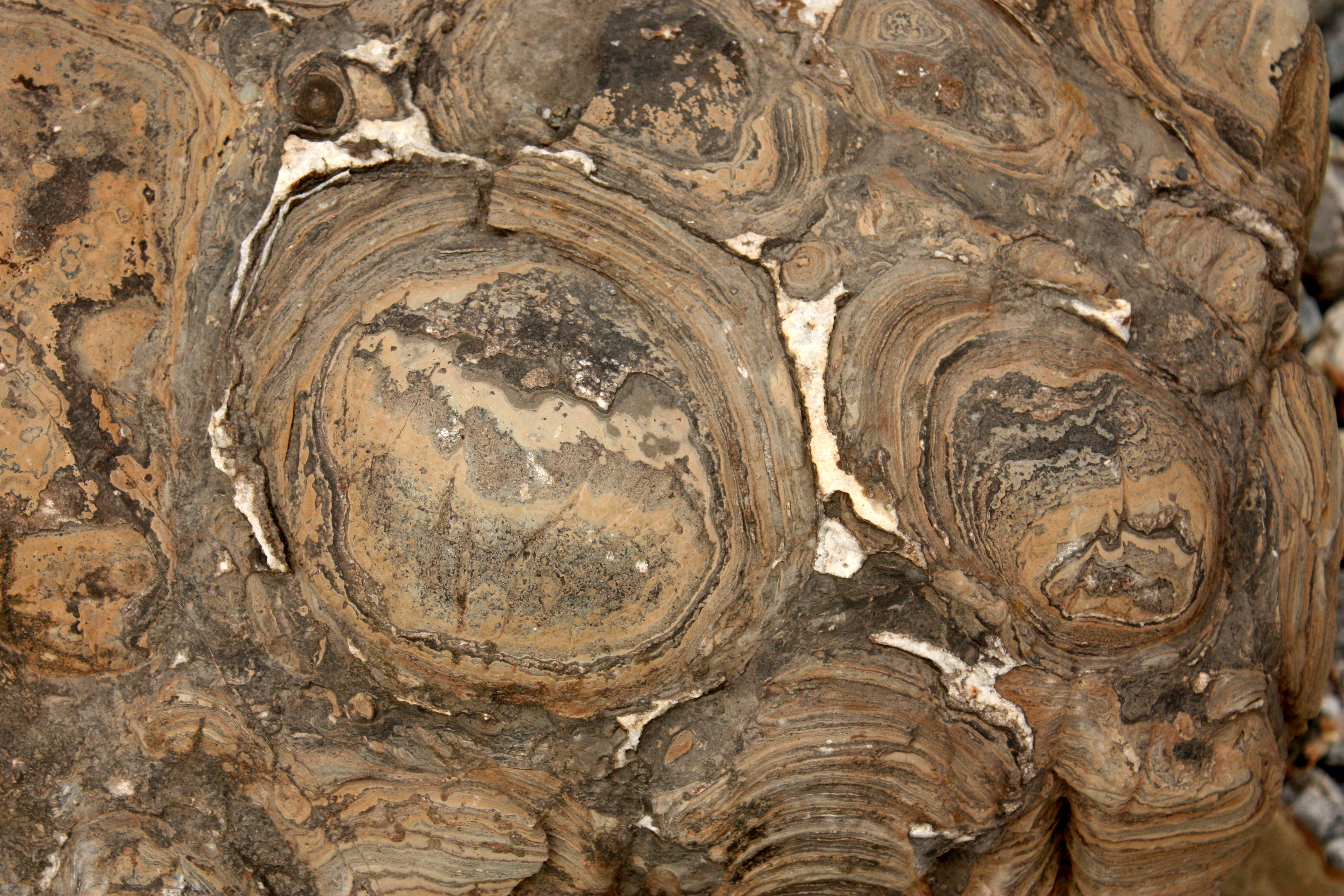 Stromatolites fossils in a glacial erratic droped in the Parc des Laurentides, near Laterrière. It came from Albanel Lake, North-East from Chibougamau, Québec. The piece of rock now belongs to the Geological Garden of Université Laval, since its donation by Jean-Guy Belley in 2003.